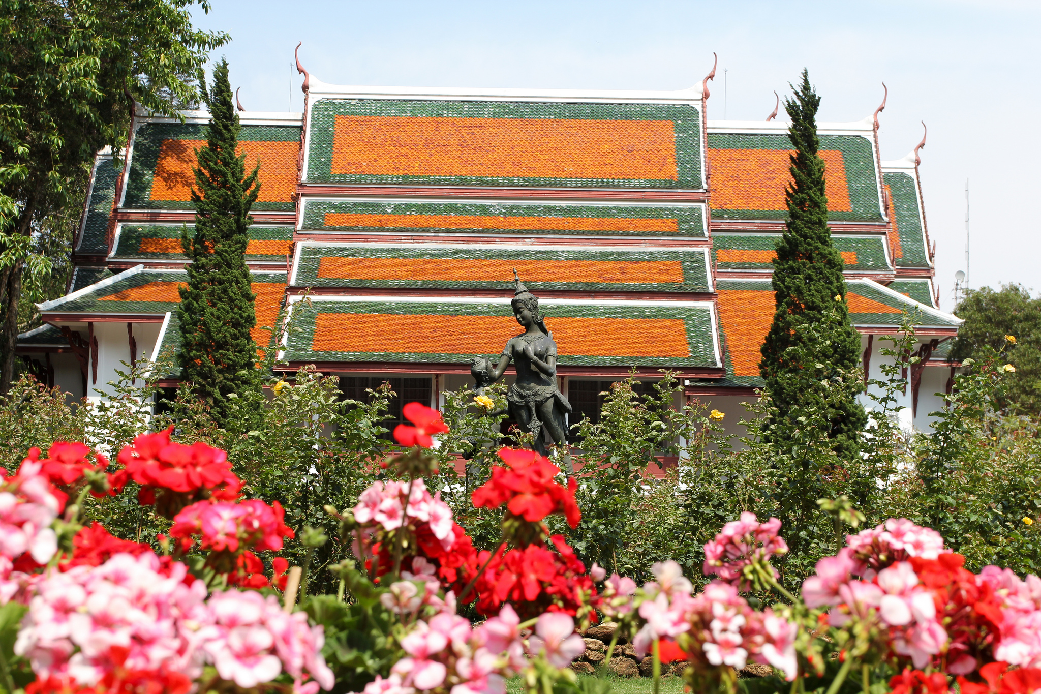 The royal residence during the winter season (Jan-Mac) on top of the Doi Suthep hill. It is a beautiful garden, but visitors are not allowed to any of the buildings.